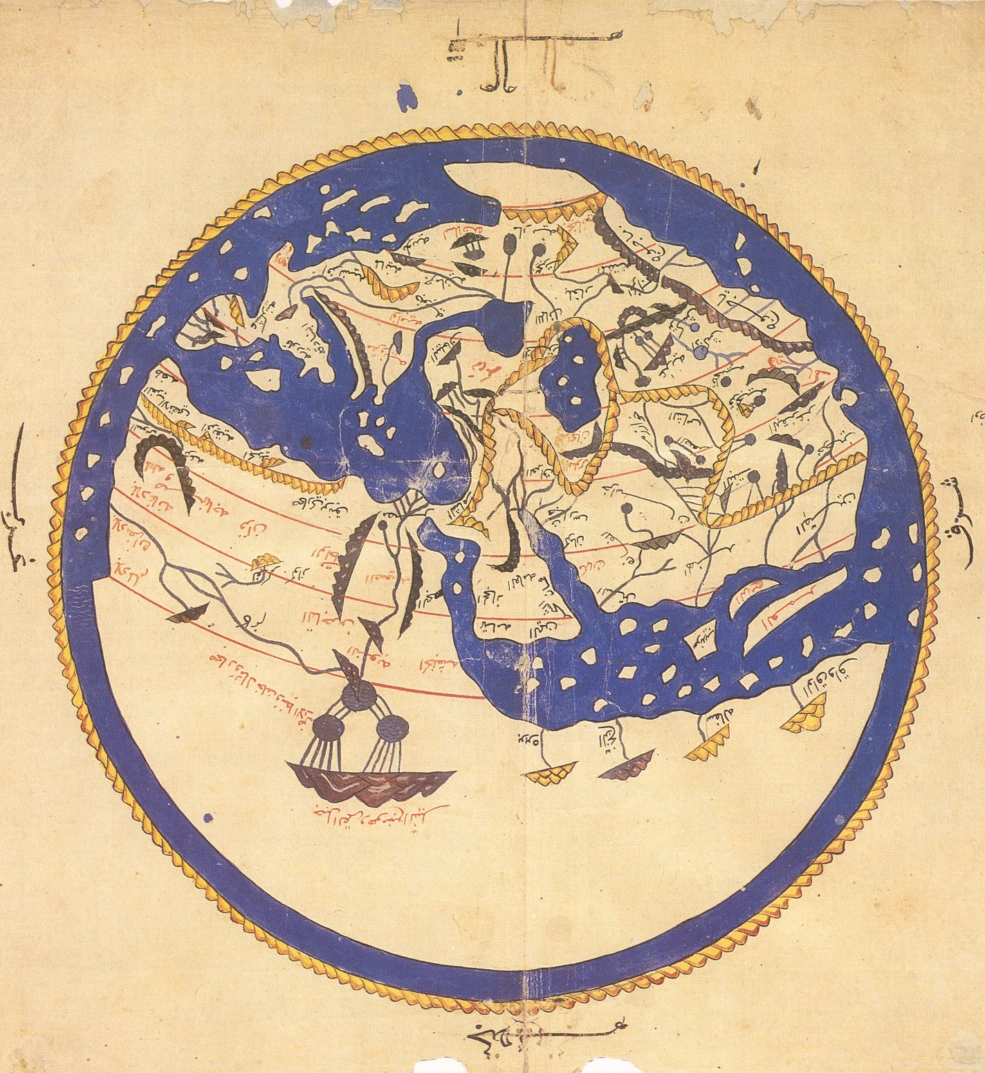 Al-Idrisi's world map Rotated 180 degrees